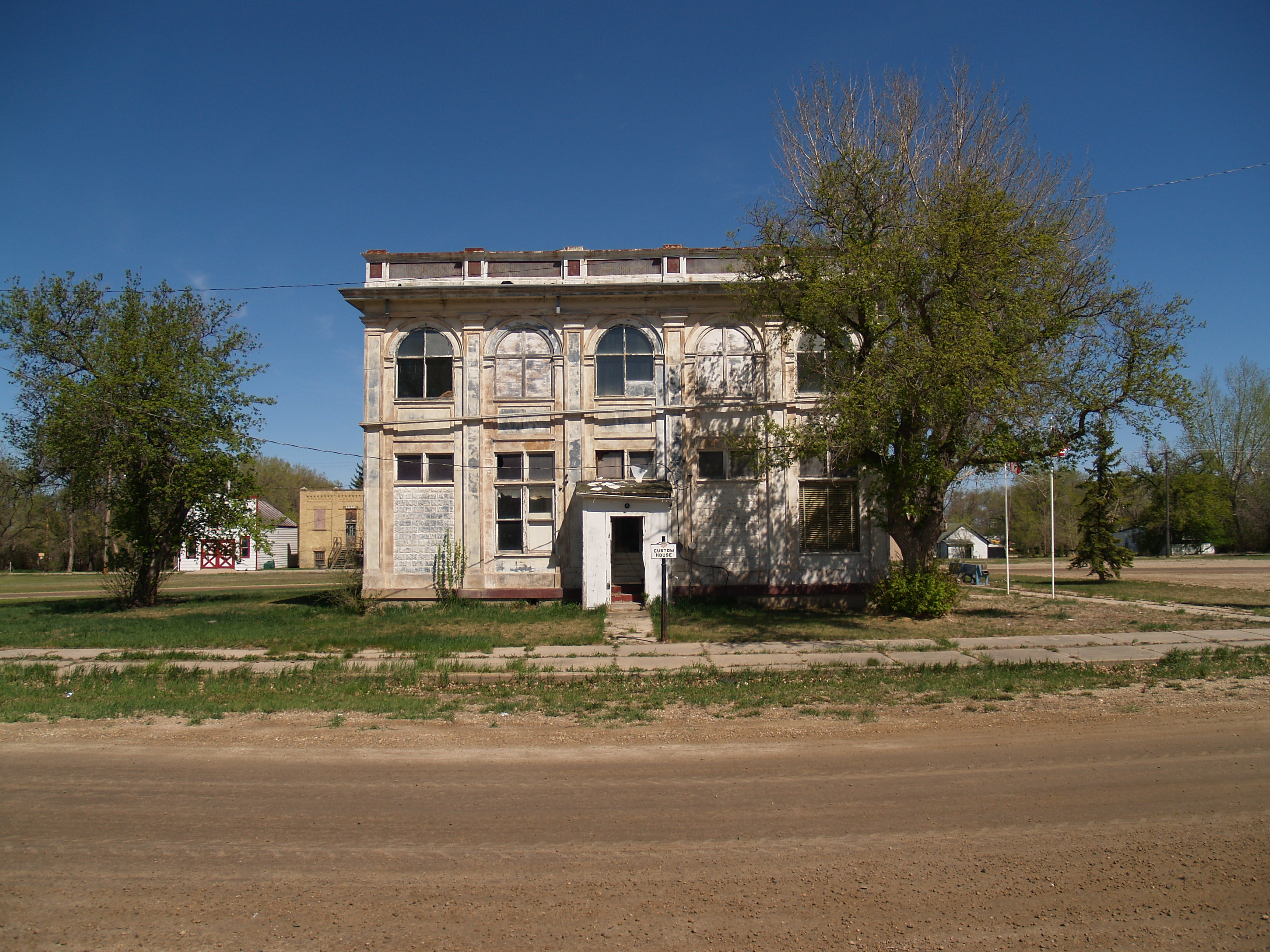 Old customs house in Antler, North Dakota